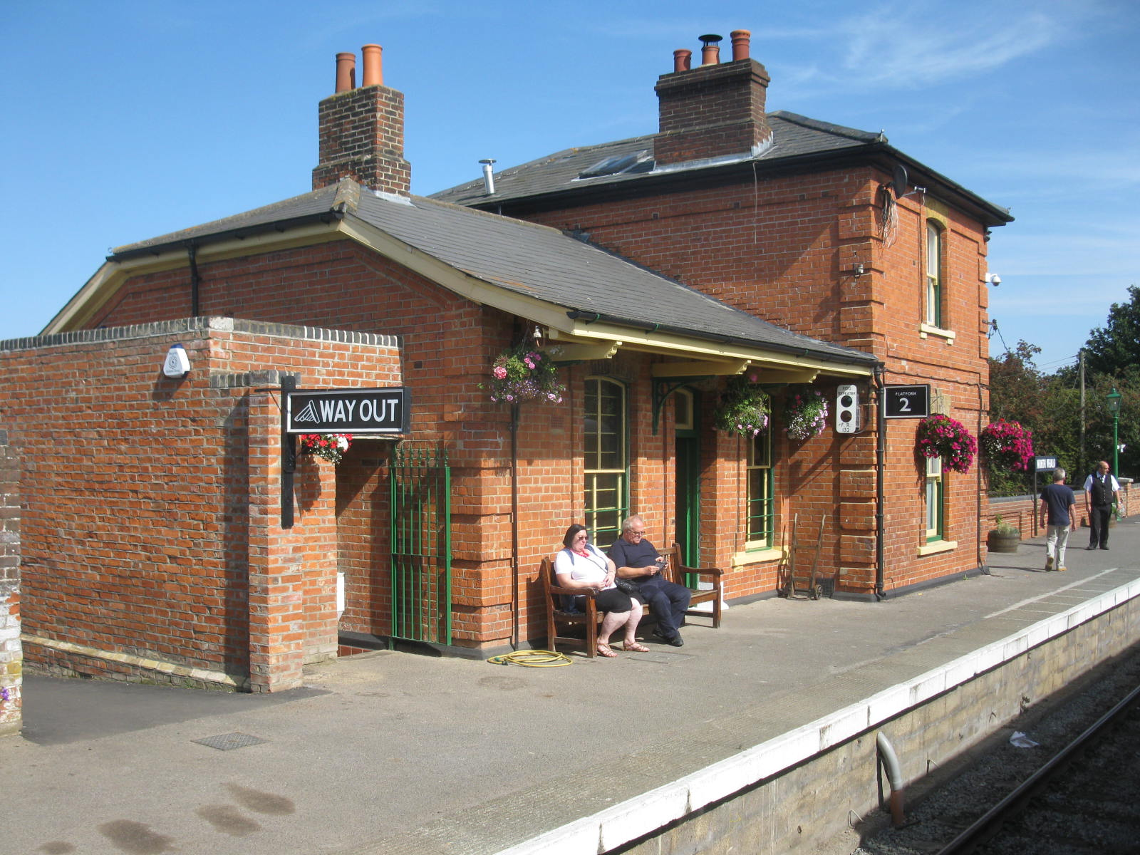 North Weald station, Epping Ongar railway